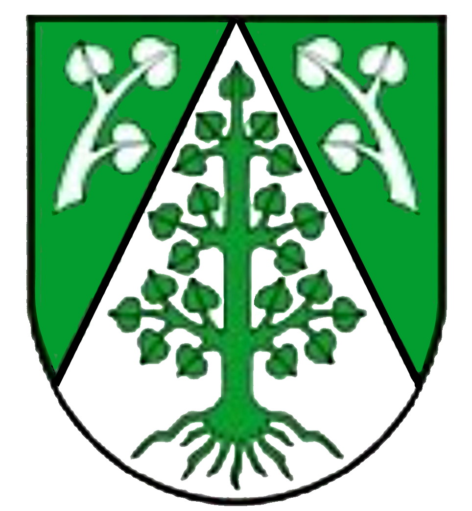 Coat of arms of Teutschenthal